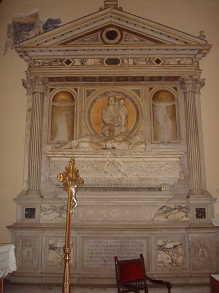 The monument of Ludovico Eufreducci in Saint Francis church of Fermo